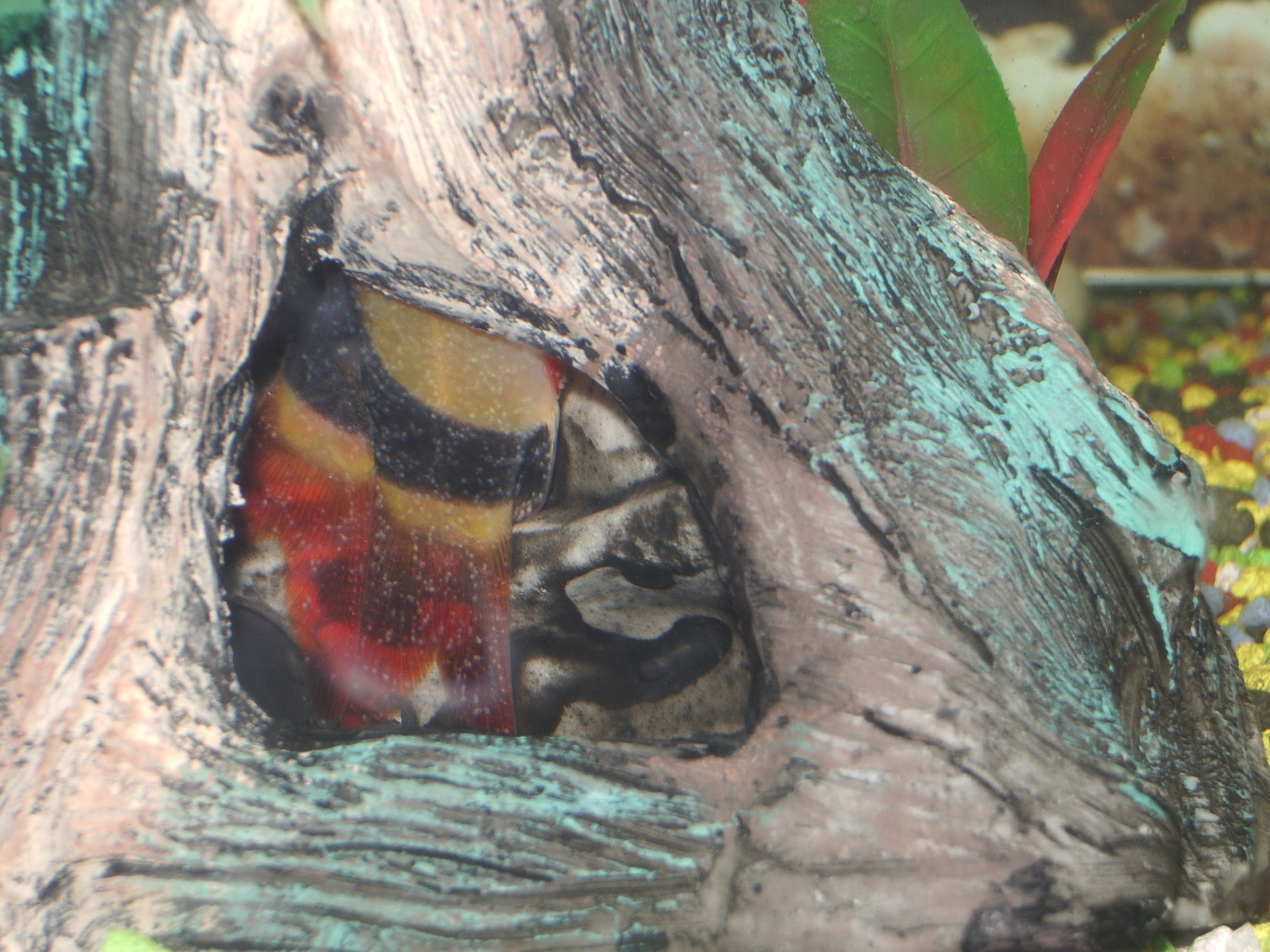 Two juvenile clown loaches with ich. Characteristically, for this stage of infestation, both are hiding in an ornament.